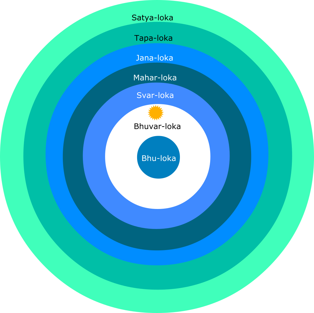 The Higher Lokas as described in the Vedas under Vedic Cosmology